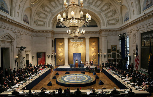 Palestinian President Mahmoud Abbas delivers remarks Tuesday, Nov. 27, 2007, during the Annapolis Conference on the grounds of the U.S. Naval Academy in Annapolis, Maryland. Attended by nearly 50 countries and organizations, the U.S.-led Middle East peace conference resulted in an agreement by President Abbas and Prime Minister Ehud Olmert of Israel to resume the long-stalled peace talks. (White House photo by Chris Greenberg)